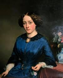 Jan Adam Kruseman - Unknown lady in a blue dress. Painting.